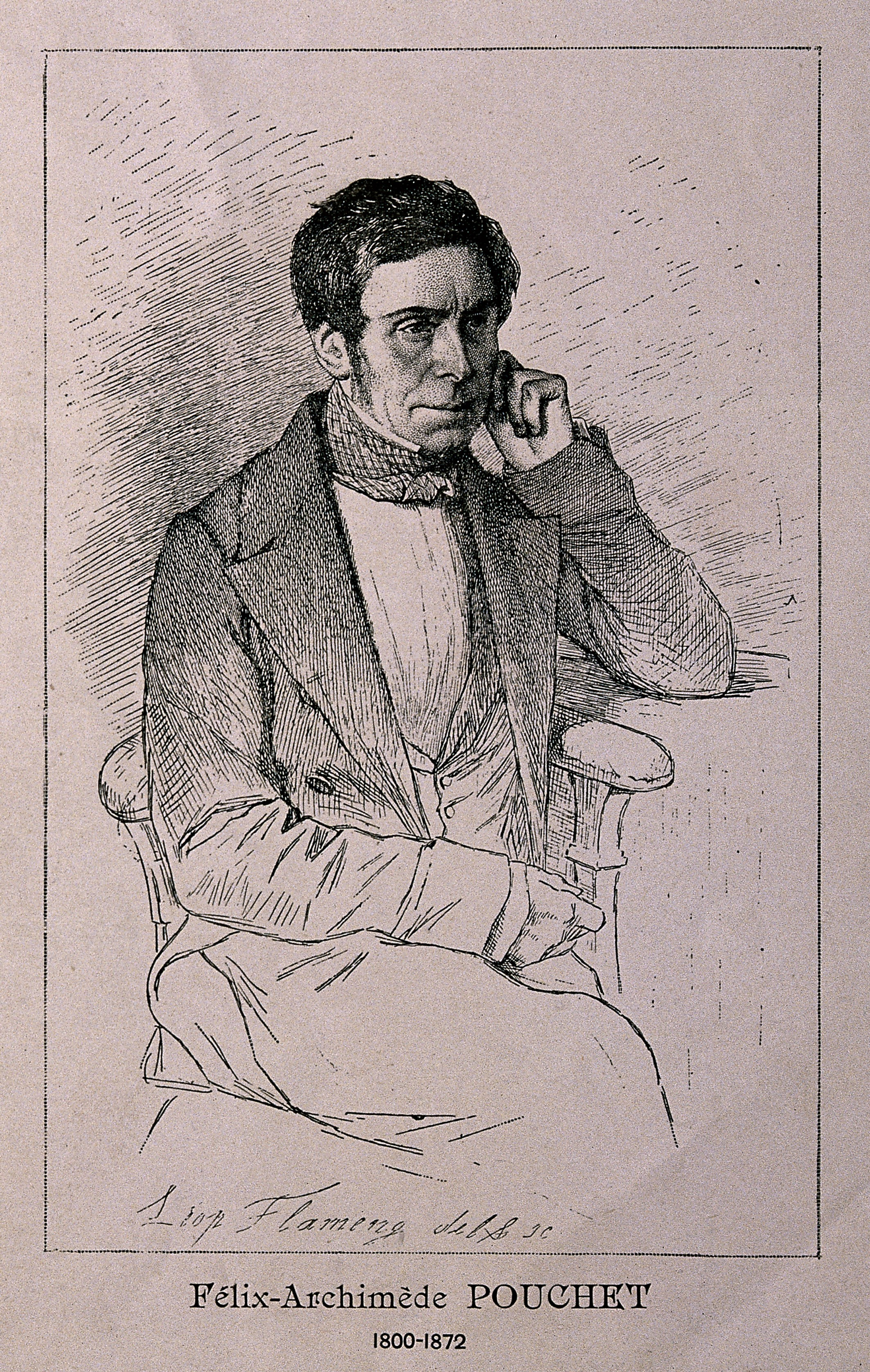 Félix-Archimède Pouchet. Reproduction of etching by L. Flameng. Iconographic Collections Keywords: portrait prints; Félix Archimède Pouchet